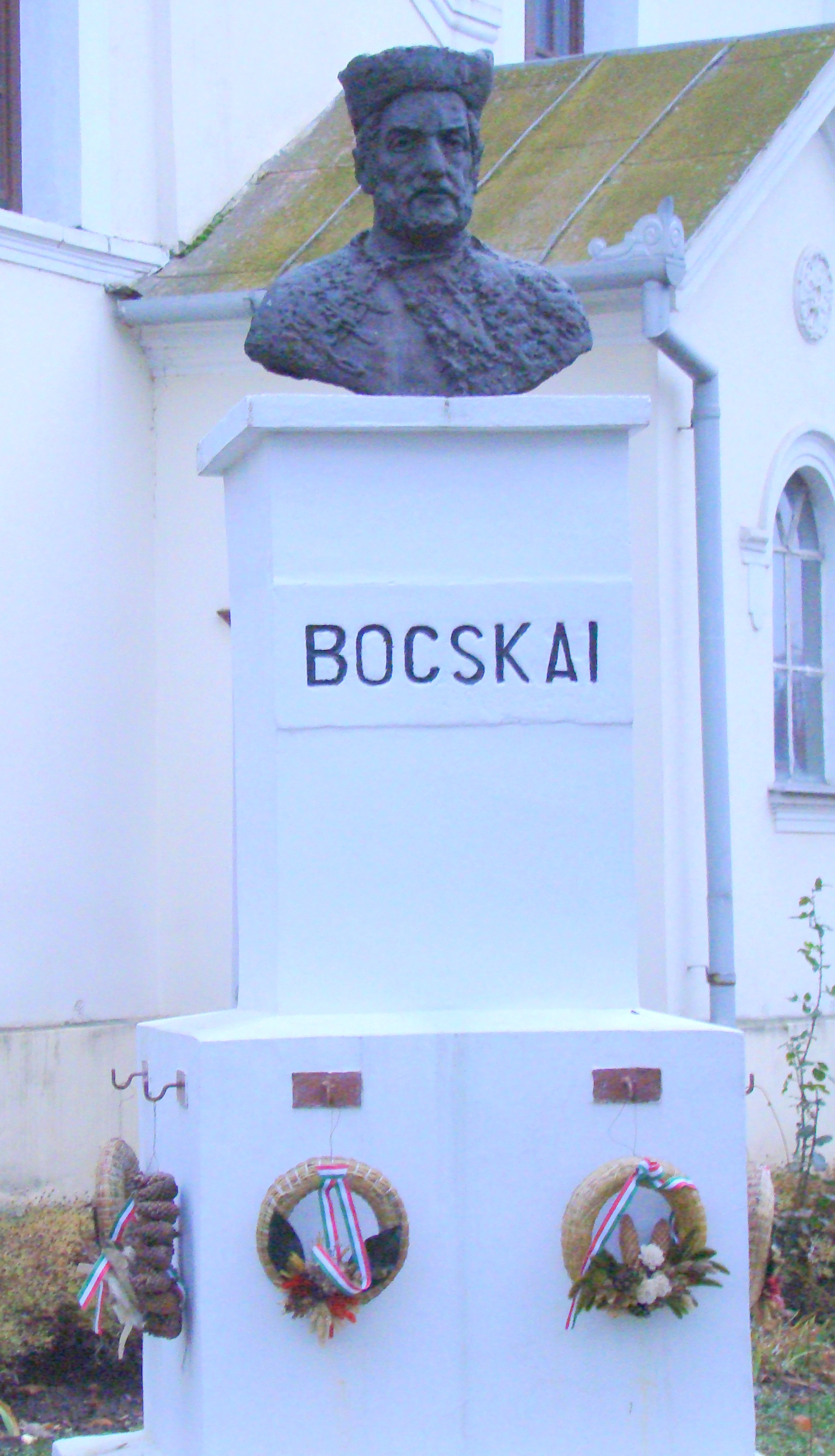 Diosig, Bihor county, Romania